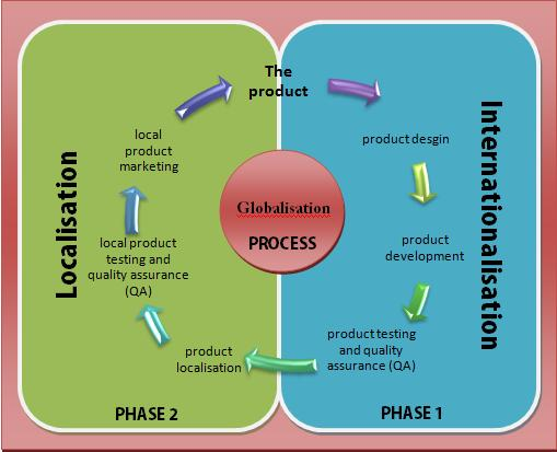 This chart illustrates the process in order to localise products, such as softwares, websites or video games. The whole process is globalisation, but its two fundamental phases are the ones we see in the chart: internationalisation and localisation.